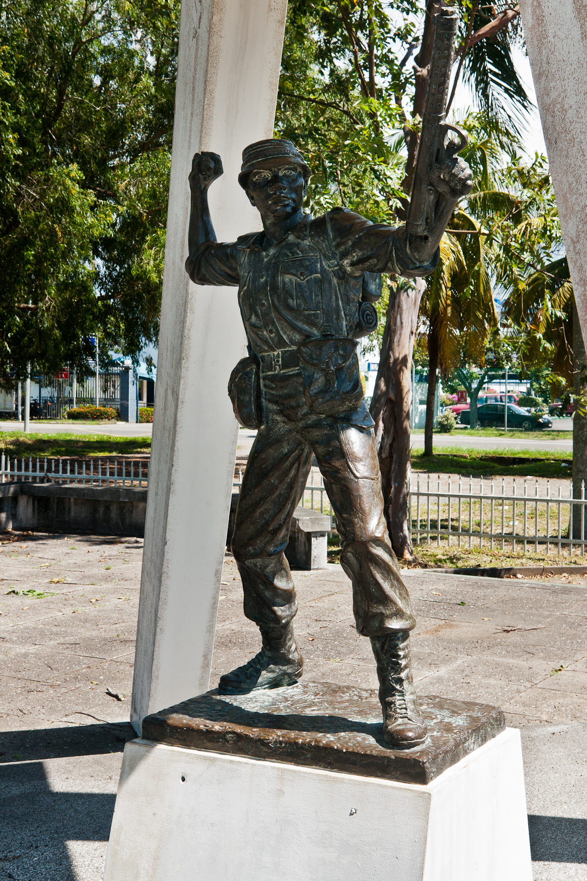 Tawau, Sabah - Konfrontasi Memorial